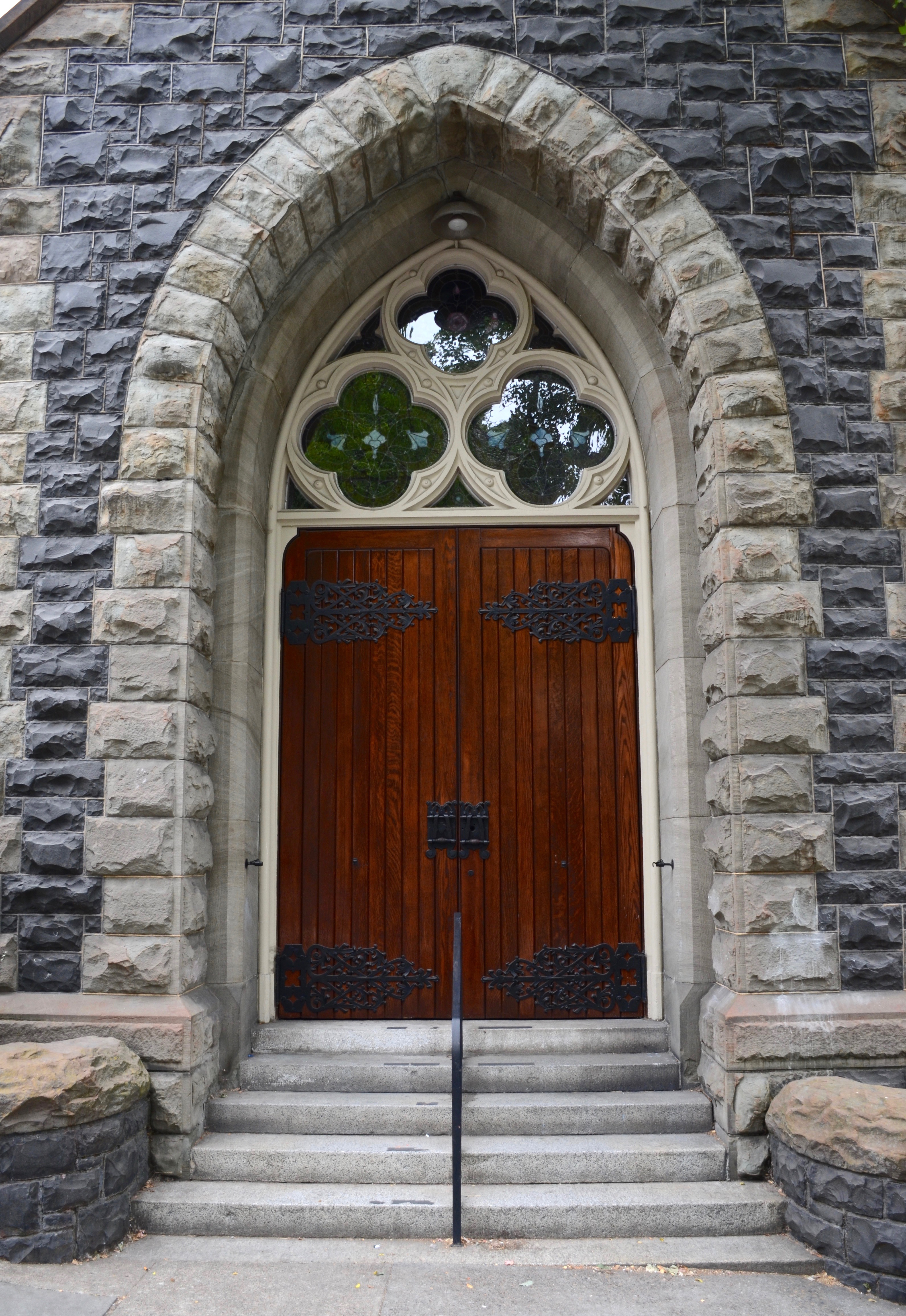 The east-facing entrance doorway of the First Presbyterian Church of Portland, Oregon, on SW 12th Avenue at the building's southeast corner. An interior view of the stained-glass windows above this entrance can be seen in this photo on Commons. Completed in 1890, the church building is listed on the U.S. National Register of Historic Places.